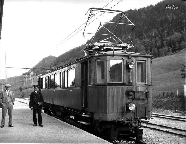 Railcar operated by Salvesen & Thams, at Orkanger railway station on Thamshavnbanen, in Orkdal, Norway.